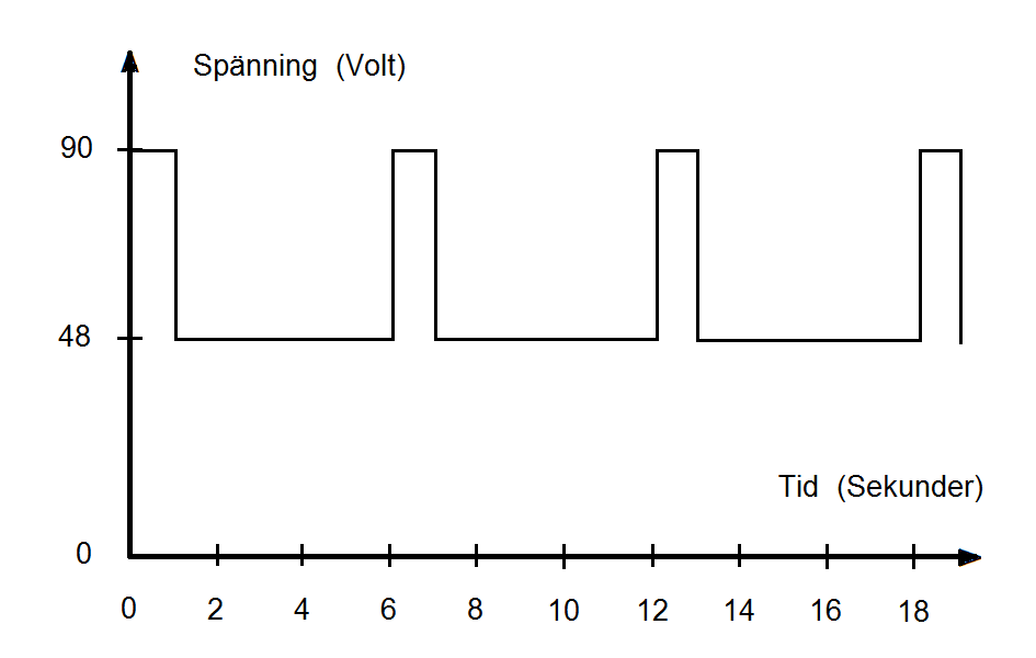 This diagram shows the Swedish Ring Signal in the Telephone Network. Time in seconds on the X-axis and RMS-voltage in volts on the Y-axis.